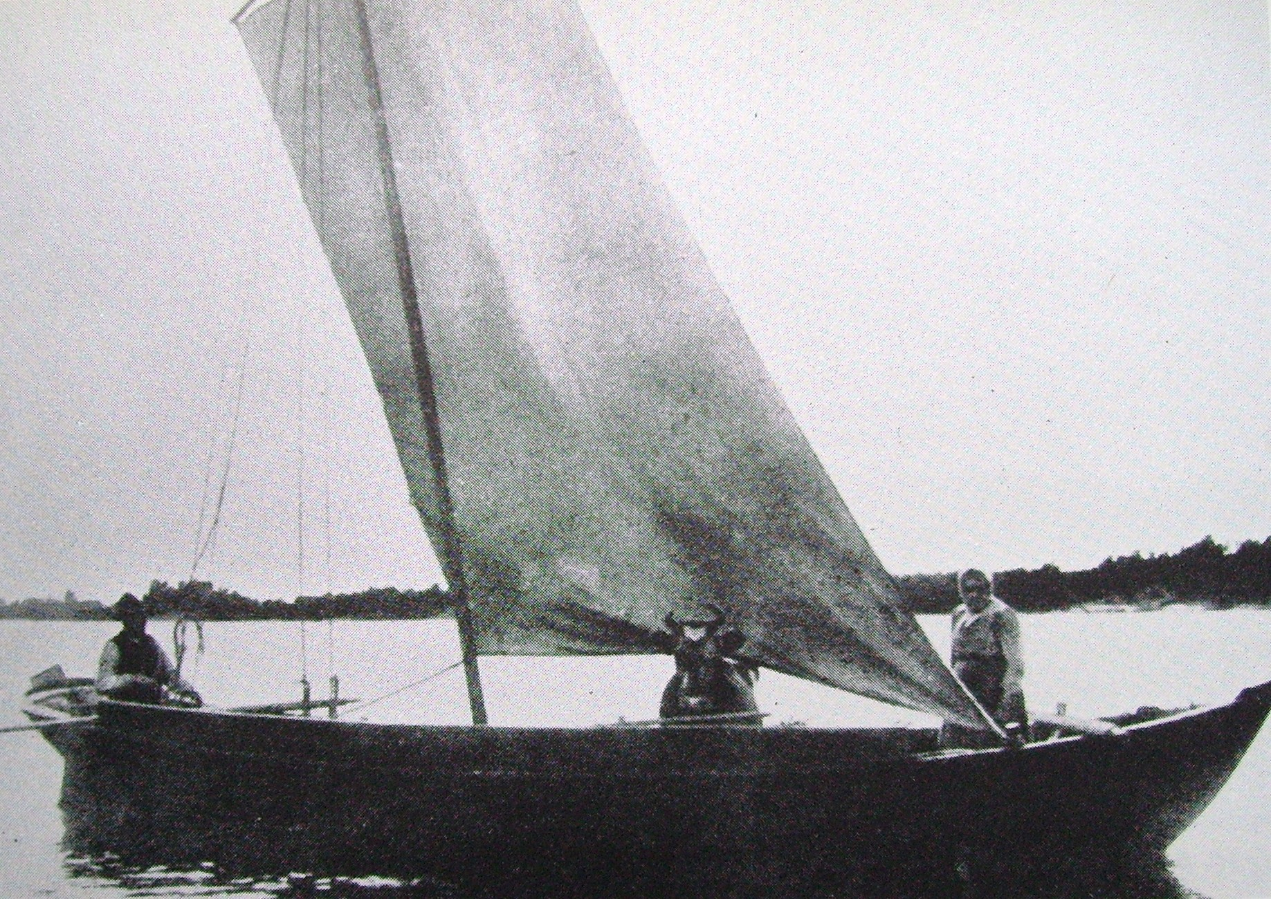 Picture of Swedish boat at Husarö